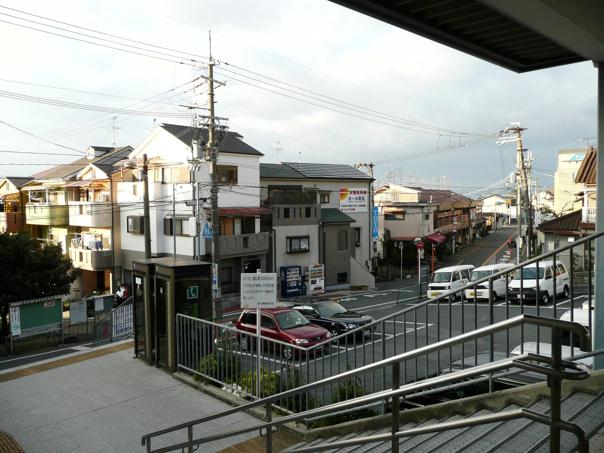 Kinki Nippon Railway,Nara Line,Nukata Station west plaza.